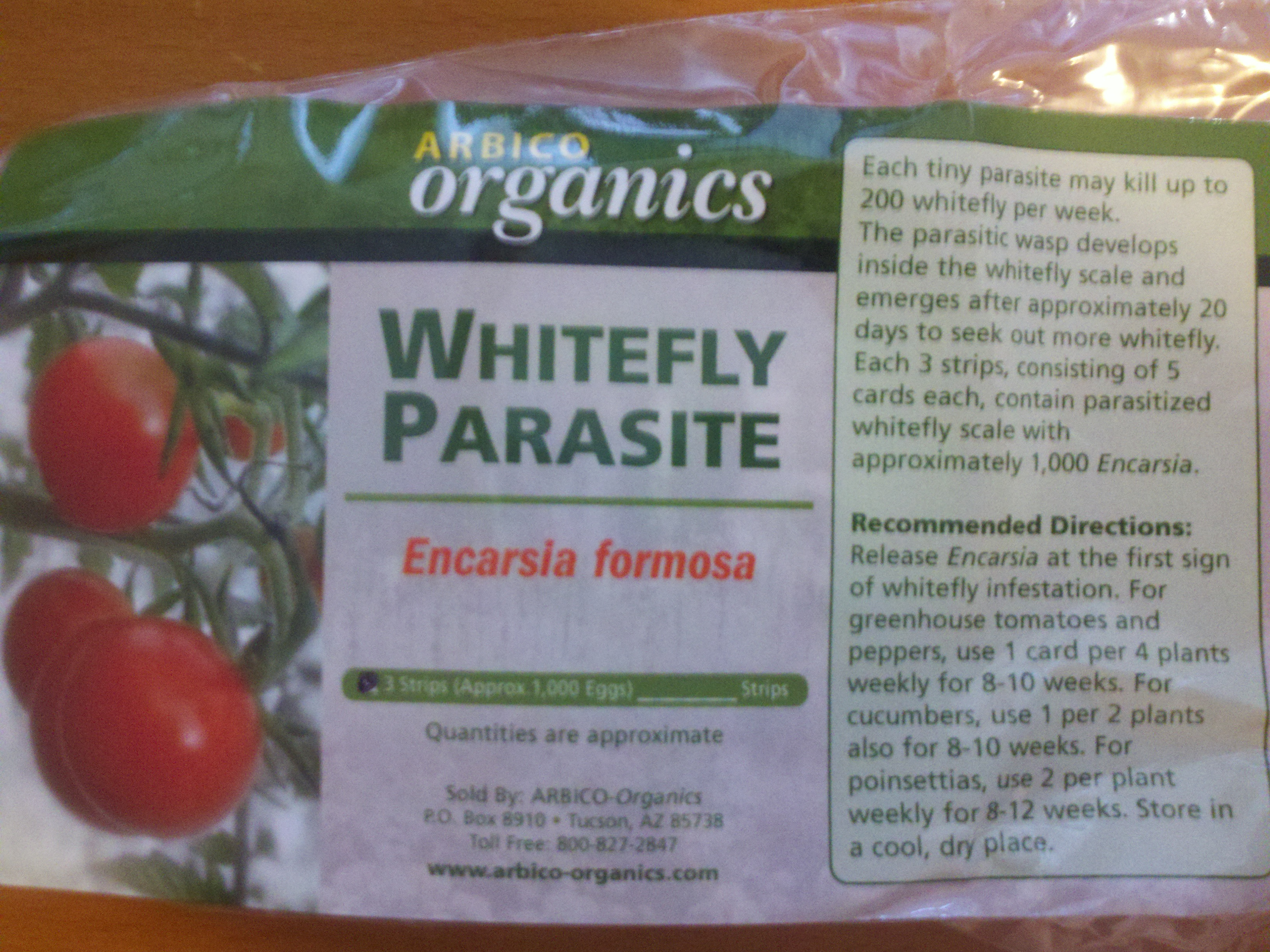 Encarsia was one of the first biological control agents developed. Whitefly scale (second and third larval stages) parasitized with Encarsia formosa eggs, are shipped on cards that can be hung directly on the plants. Adults will emerge from the pupae over a period of 1-2 weeks.